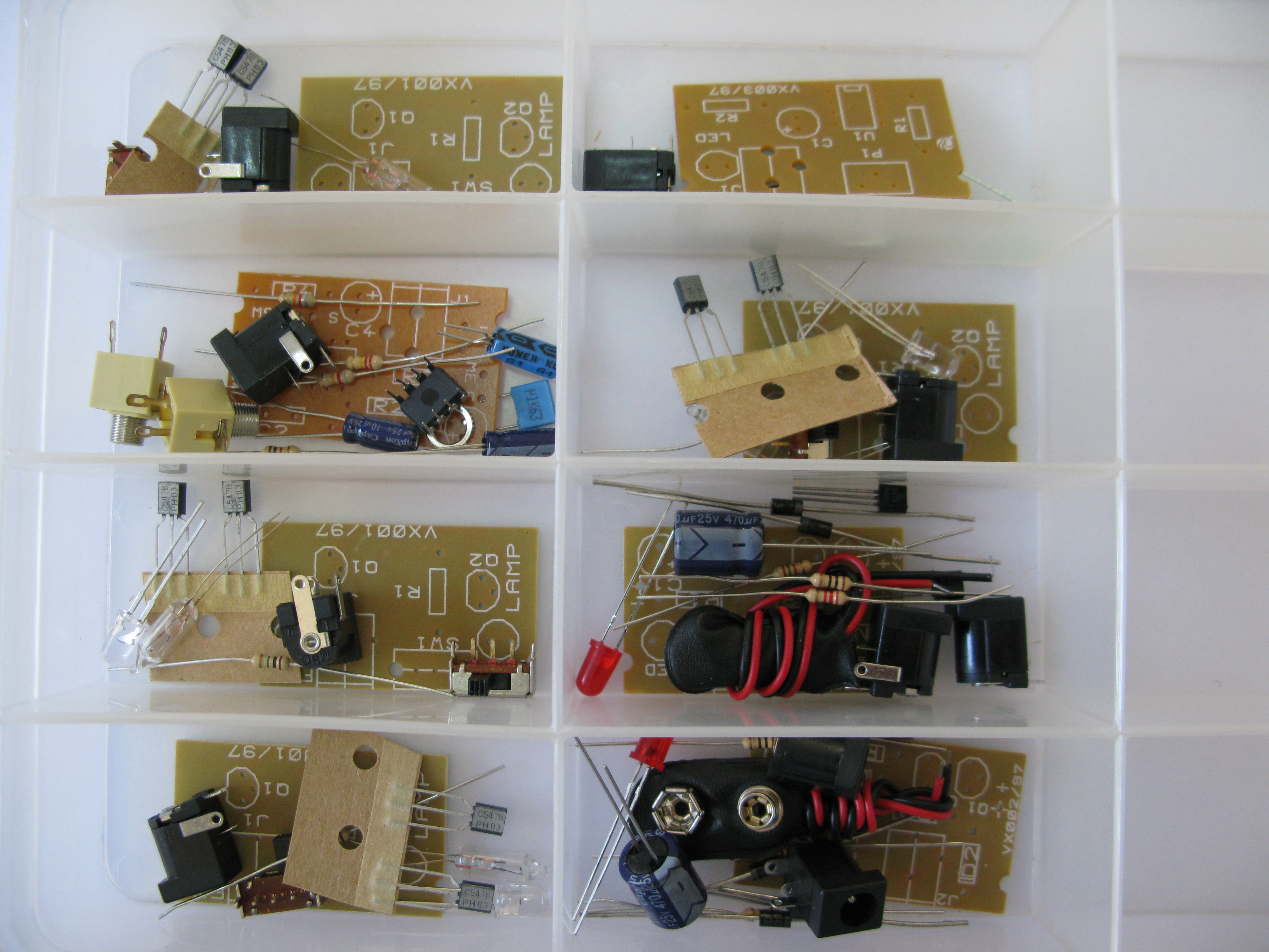 Electronics kits